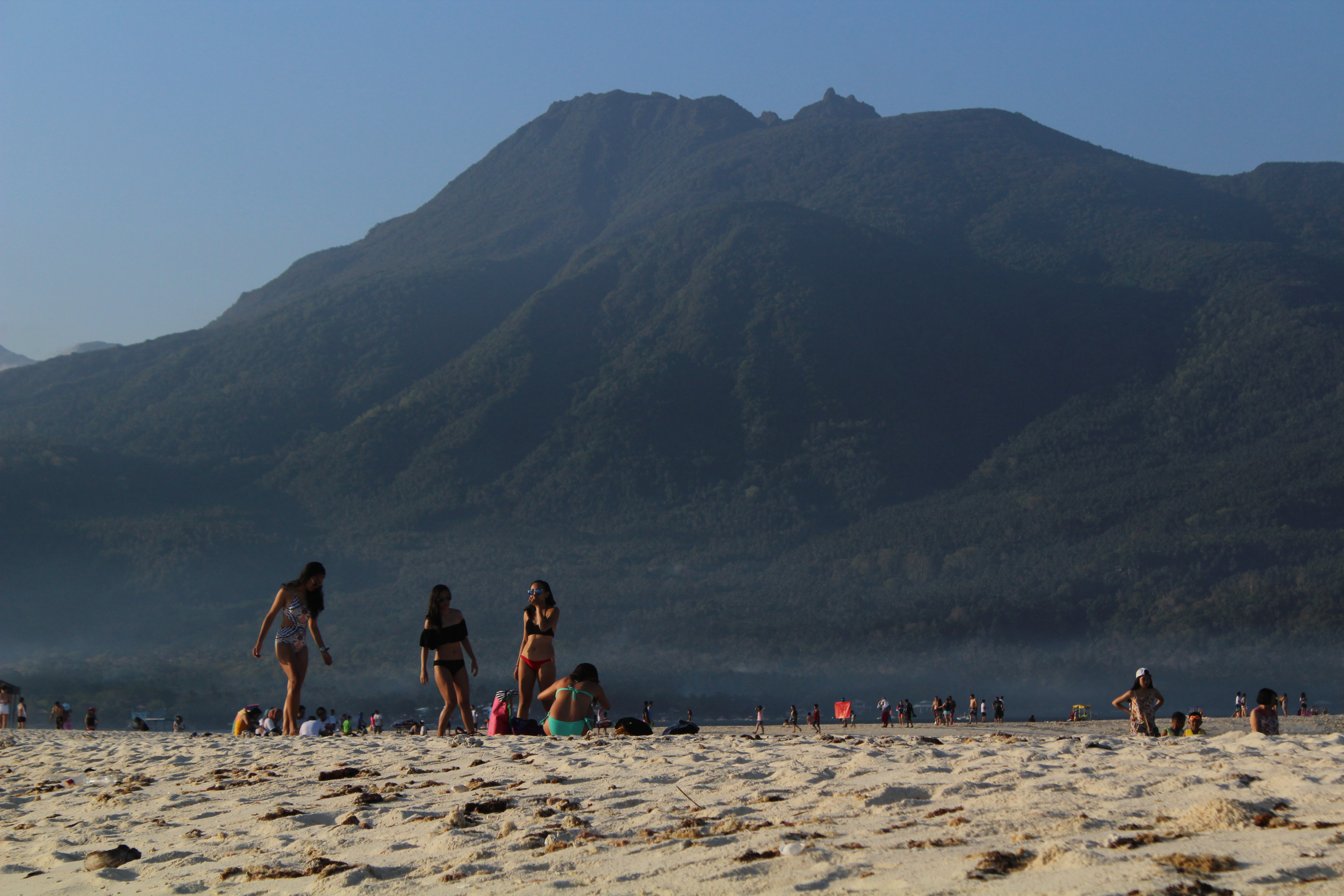 Mount Hibok-Hibok from White Island